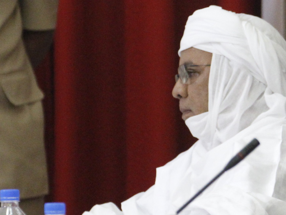 Brigi Rafini, prime minister of Niger.